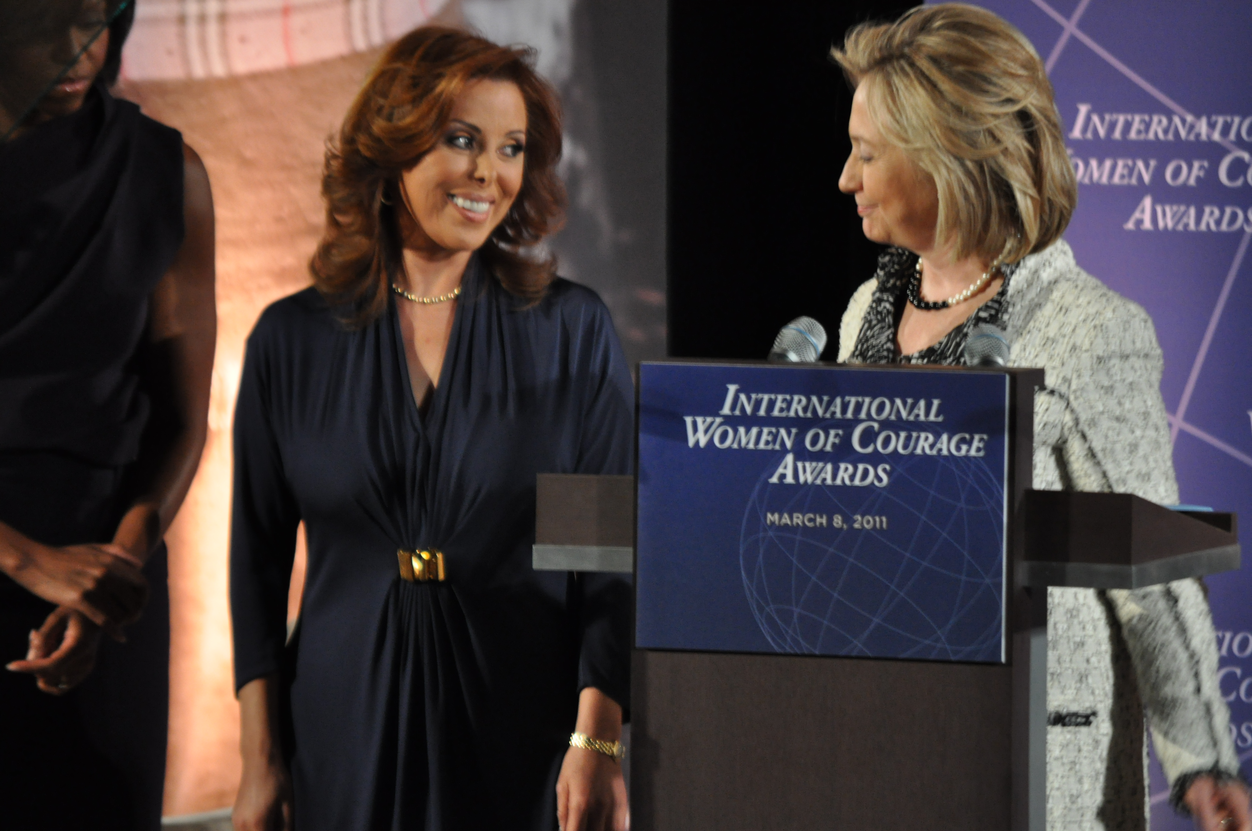 Marisela Morales Ibañez, Assistant Attorney General for Specialized Investigation of Organized Crime in Mexico, and Secretary of State Hillary Clinton.